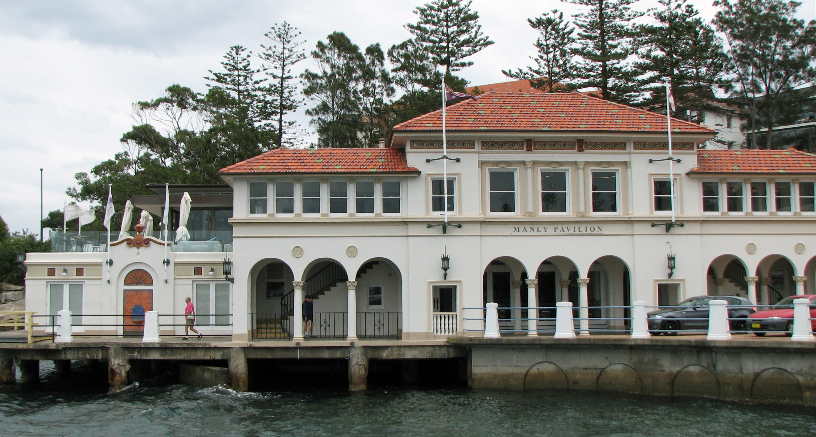 The Manly Cove Pavilion is a Heritage Listed Building at Manly, New South Wales